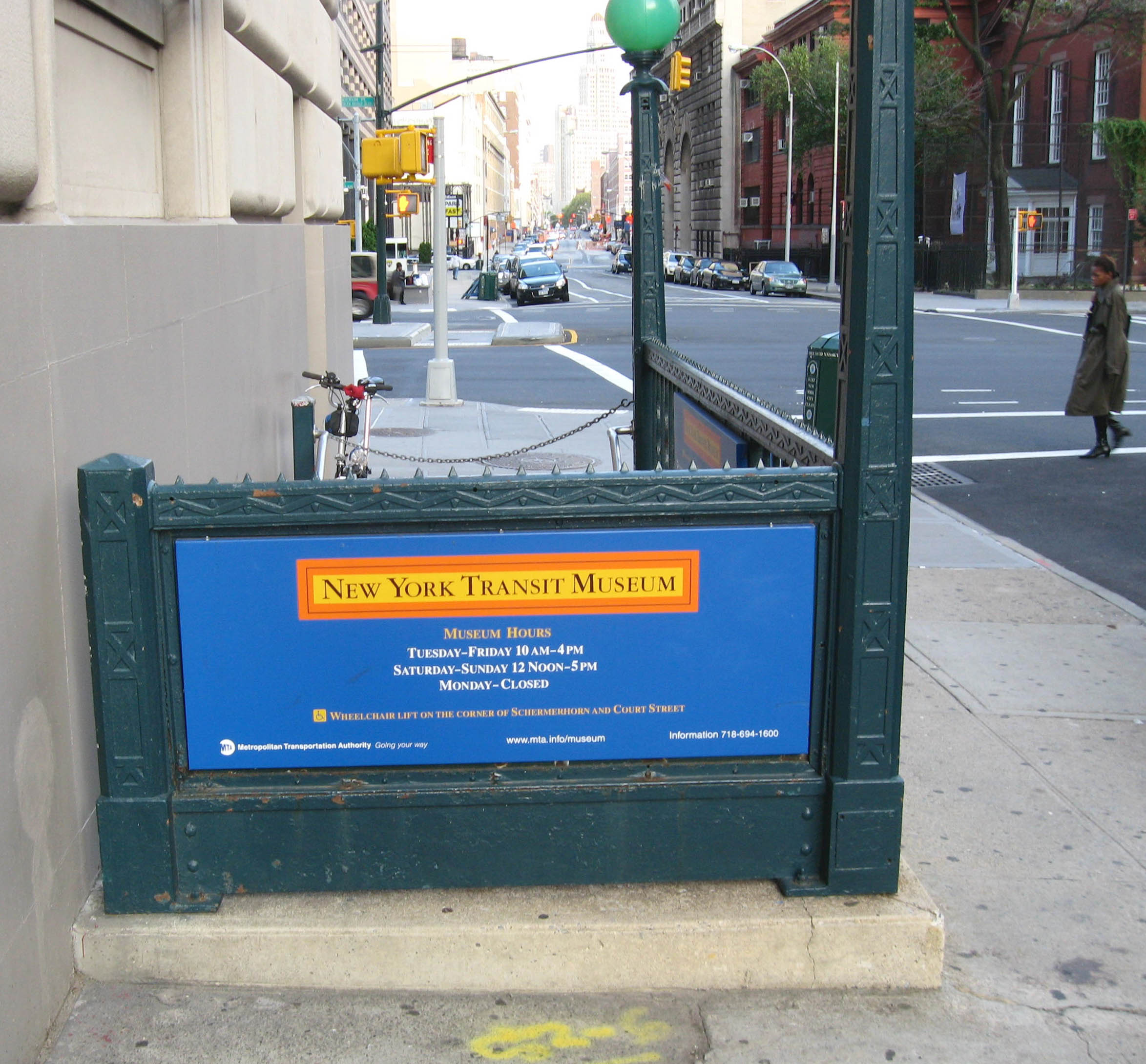 Looking east at sunset along Schermerhorn Street at Court Street stair for New York Transit Museum, goal #J48 of WTM